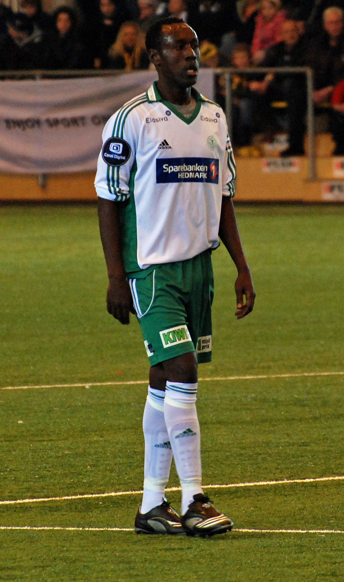 Olivier Karekezi, Lillestrøm - HamKam, LSK hallen in Lillestrøm, Akershus, Norway